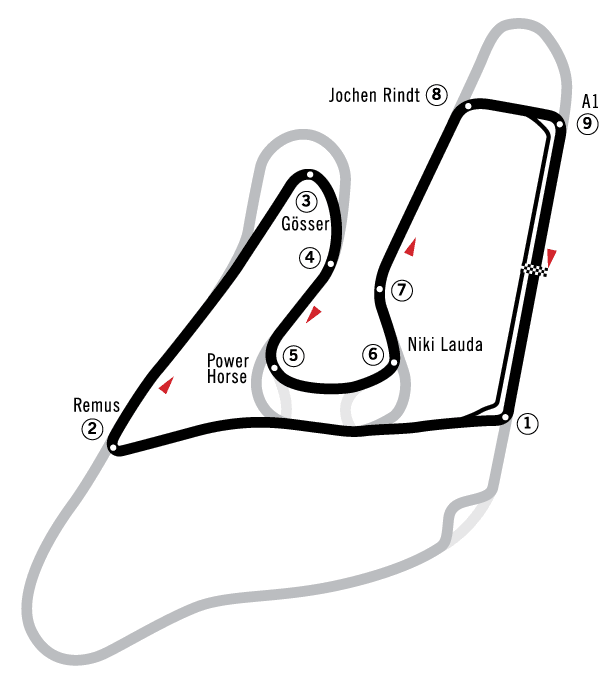 Österreichring (grey) and new A1Ring (black)